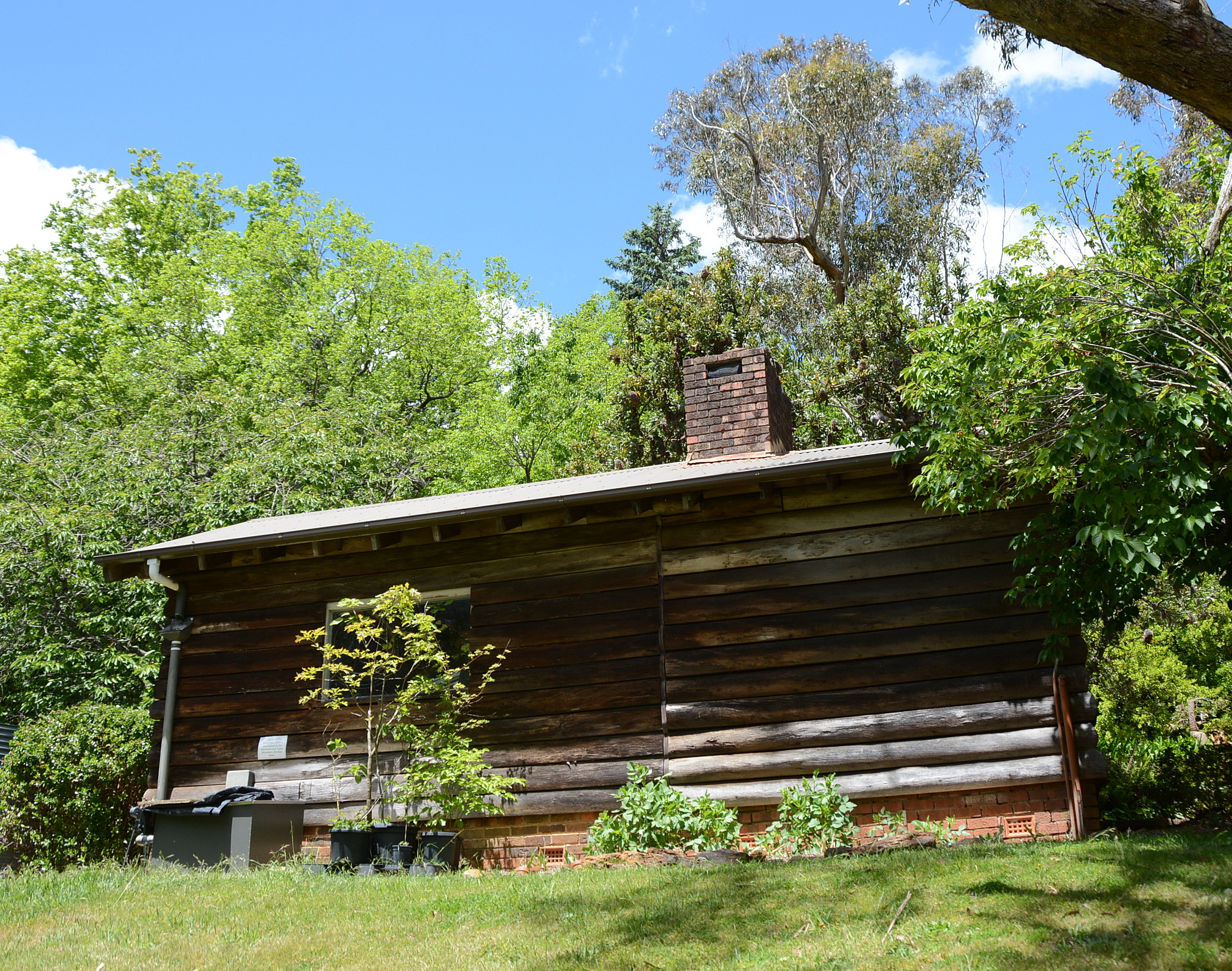 Log cabin, Everglades, Leura, NSW, Australia